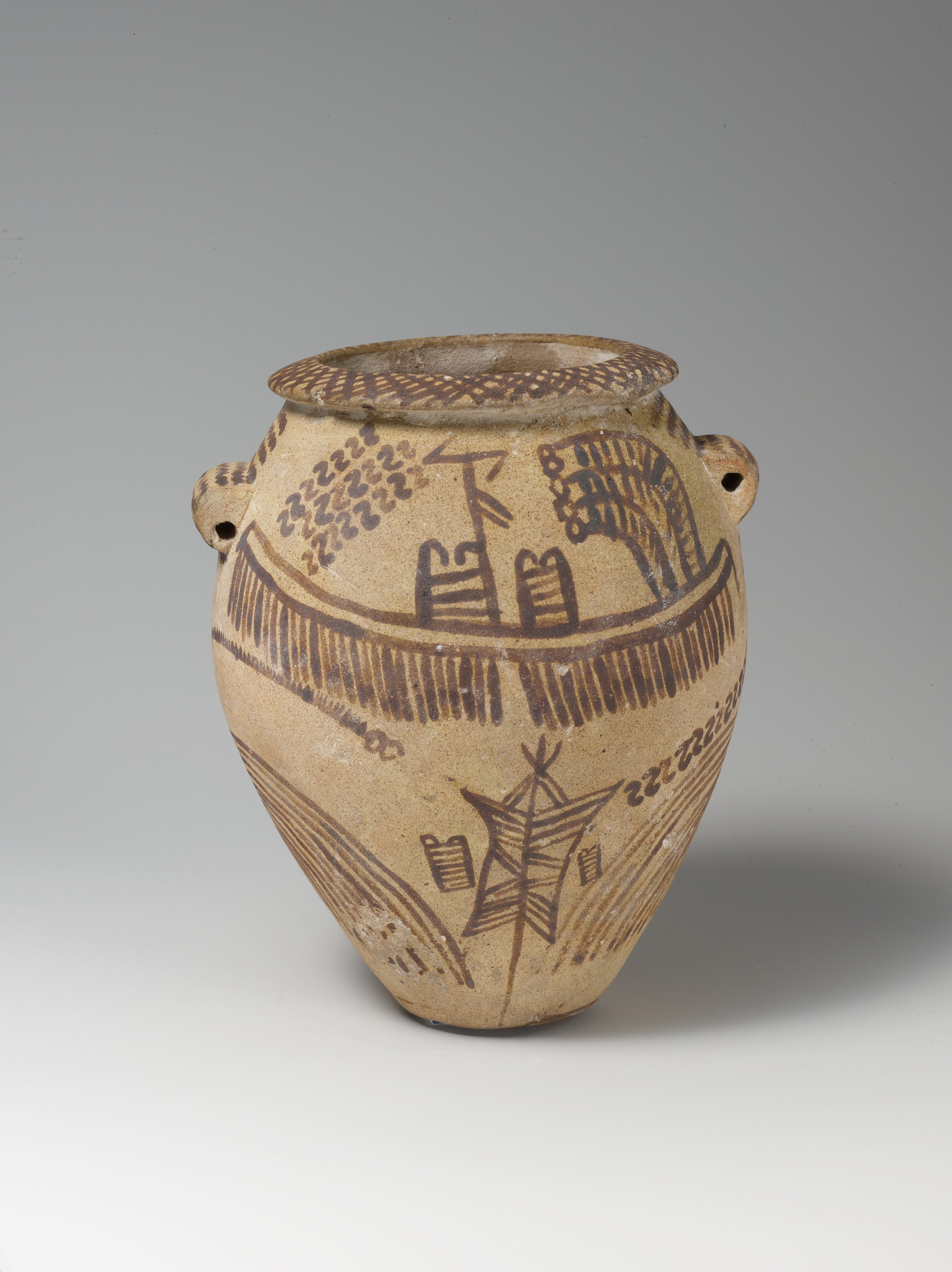 Jar, decorated ware, boats and trees